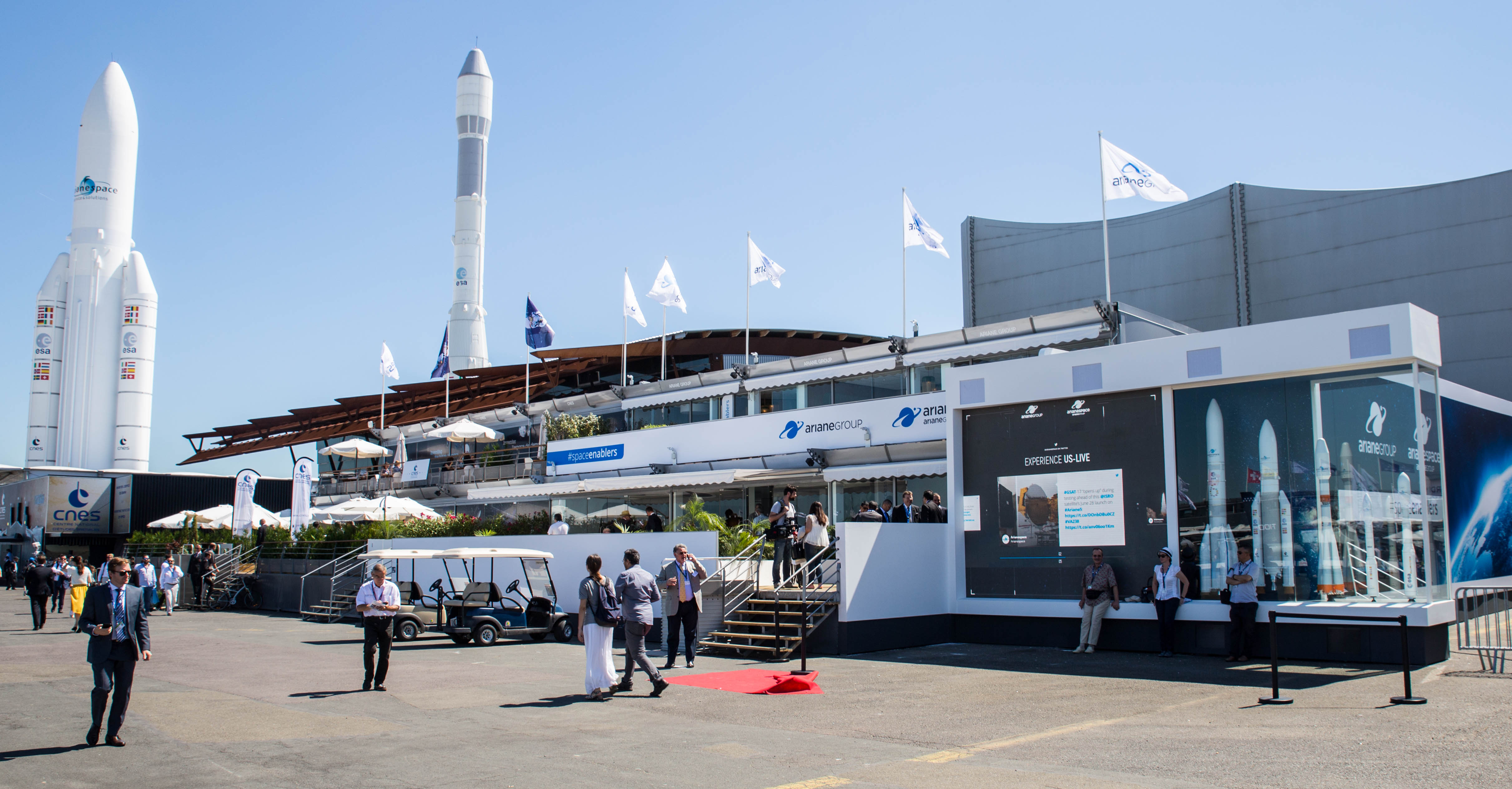 Ariane Group